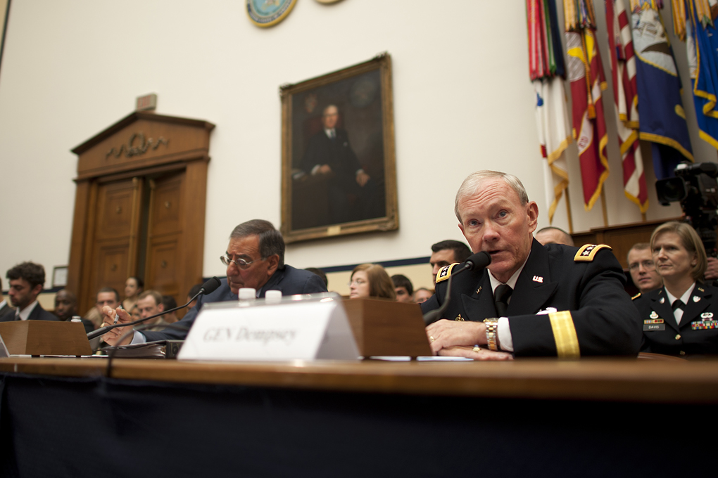 General Martin Dempsey and Leon Panetta at a House Armed Services Committee Hearing